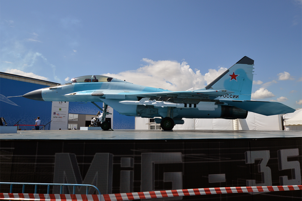 Russian Air Force, Mikoyan-Gurevich MiG-35